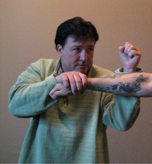 American actor Jeff Speakman during his visit in Moscow (2008) shows some kiks